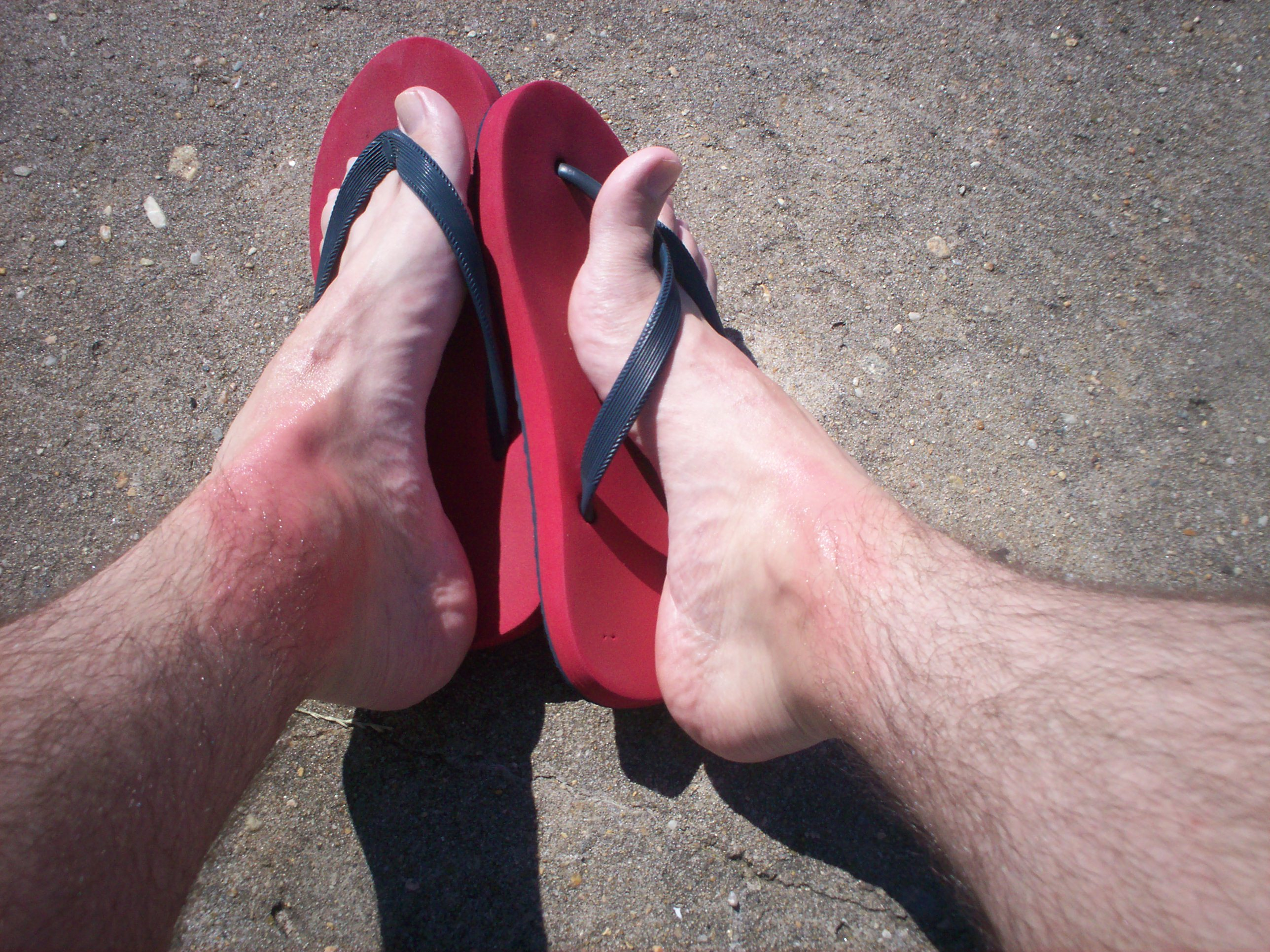 Missed a couple spots with the SPF.